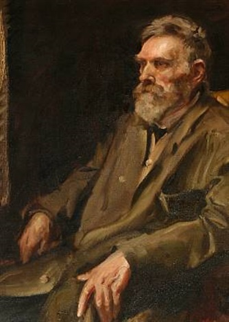 Portrait of the Danish painter Anders Andersen-Lundby